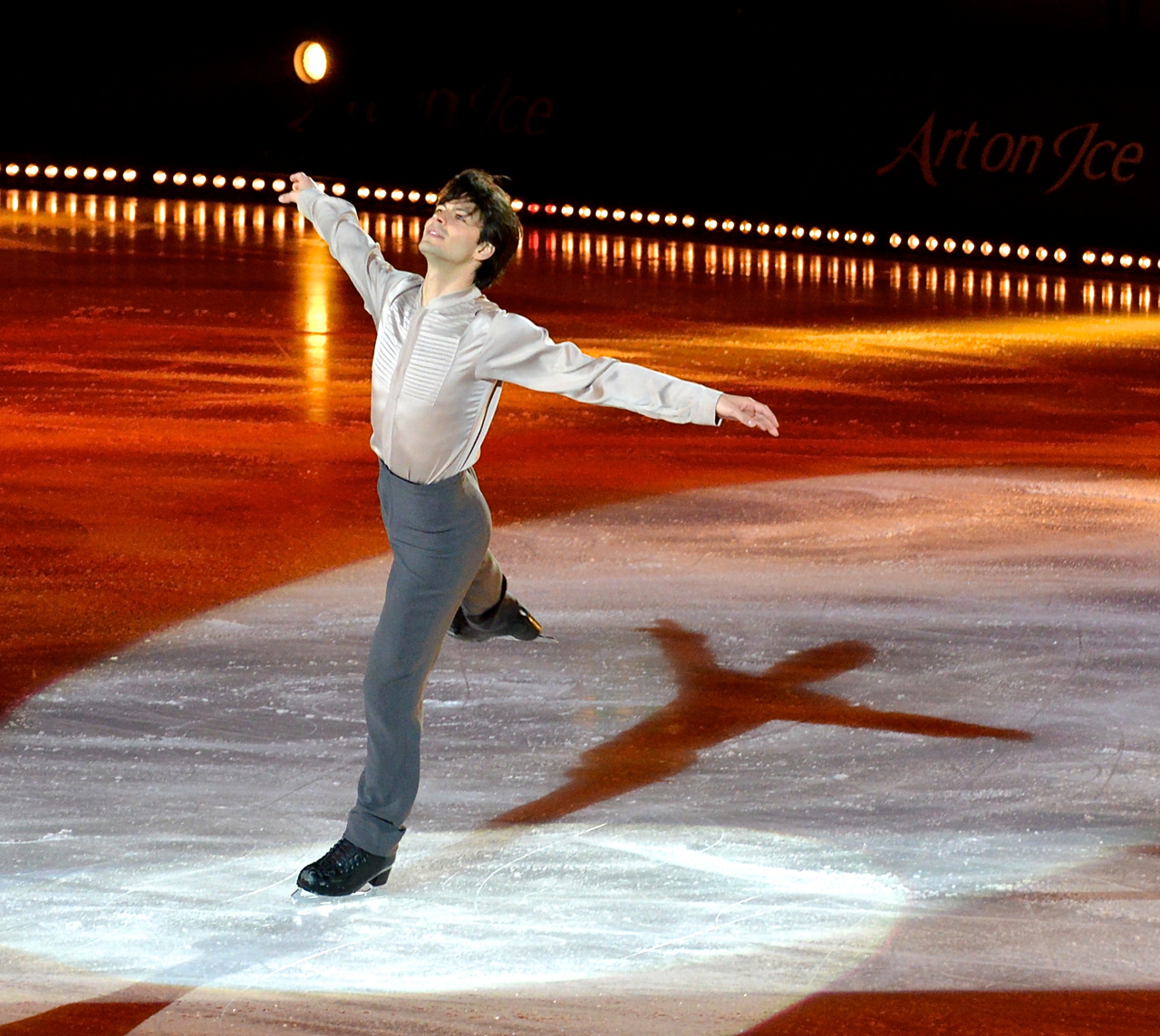 Stéphane Lambiel in "Art on Ice" at the Globe Arena in Stockholm, March 13, 2014.